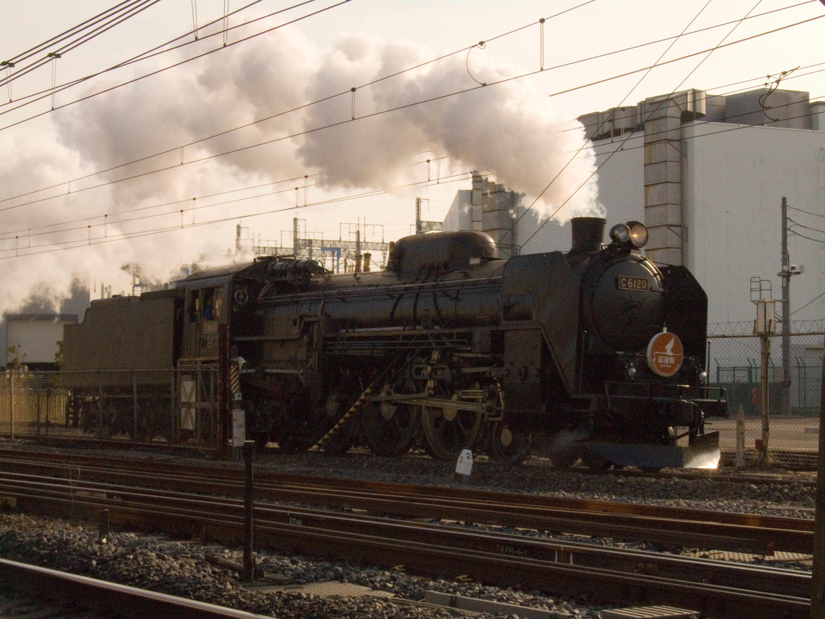 JNR C61 steam locomotives no.20 for test running